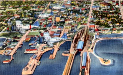 Aerial View of Pensacola. Does anyone recognize the type of airplanes? Perhaps that could provide a better date estimate. -- Infrogmation 06:47 21 Jul 2003 (UTC) Possibly FF-1, mid to late 1930s; see talk page discussion (on enwiki)